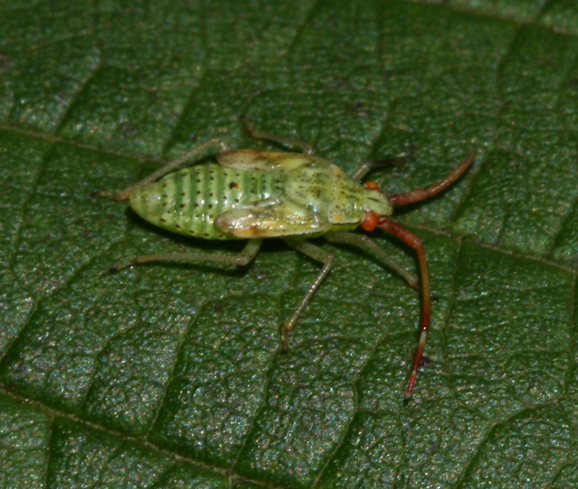 Brigsteer, Cumbria, England SD482895 Thanks to Tim Ransom for the id